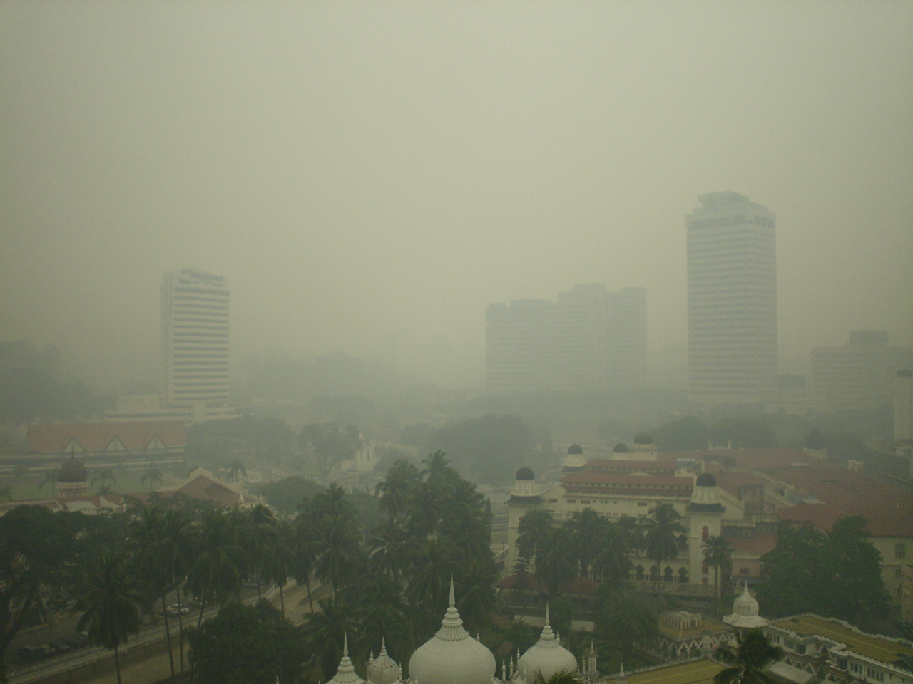 Air pollution (smog) from vehicles is one of the environmental problems posed by motorized tansport ; It is more and more common in large cities of Asia and Southeast Asia. Photo taken August 10, 2005 in Kuala Lumpur (Malaysia) with a Sony DSC-P43.